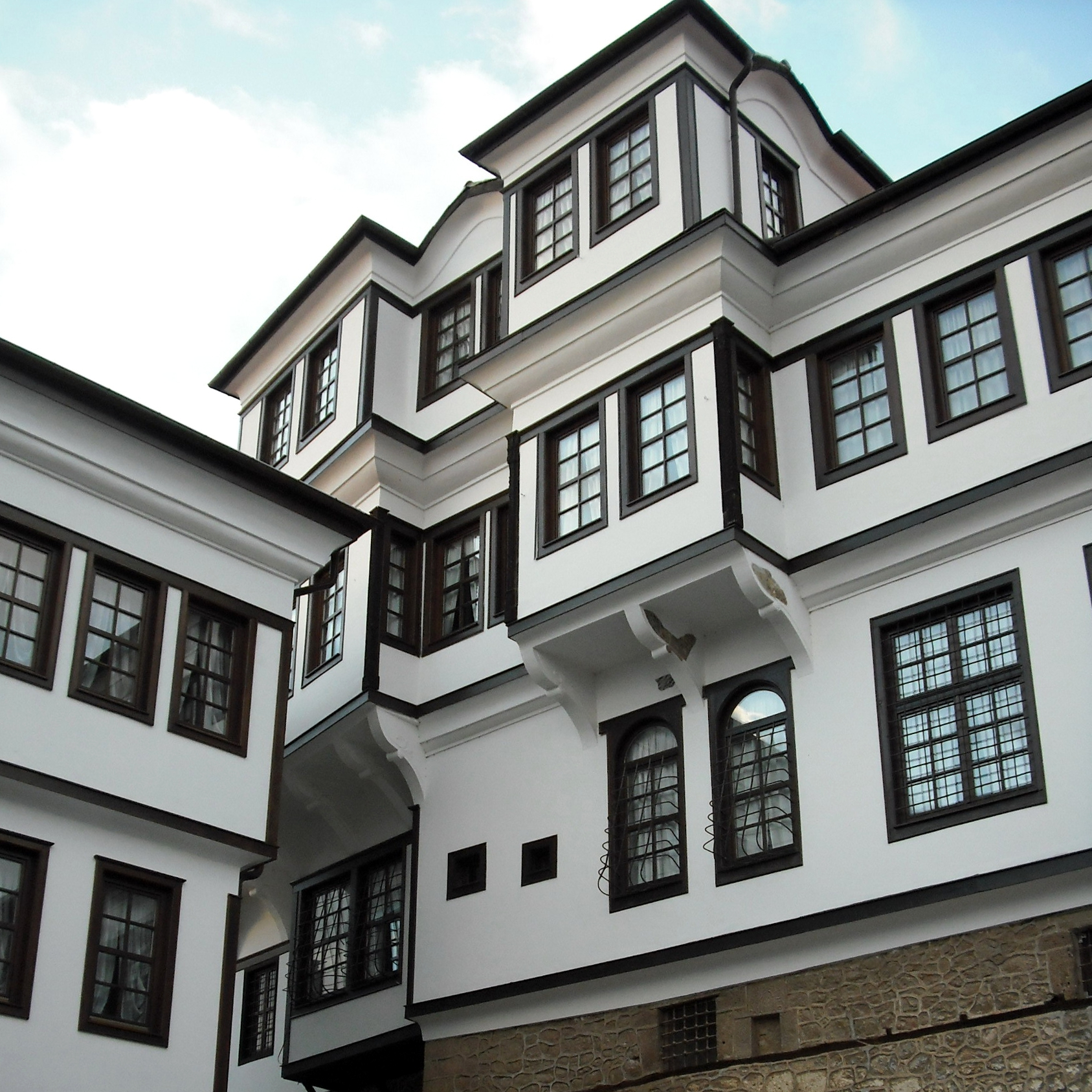 19th century, typical Macedonian architecture. Куќа на Робеви, Охрид